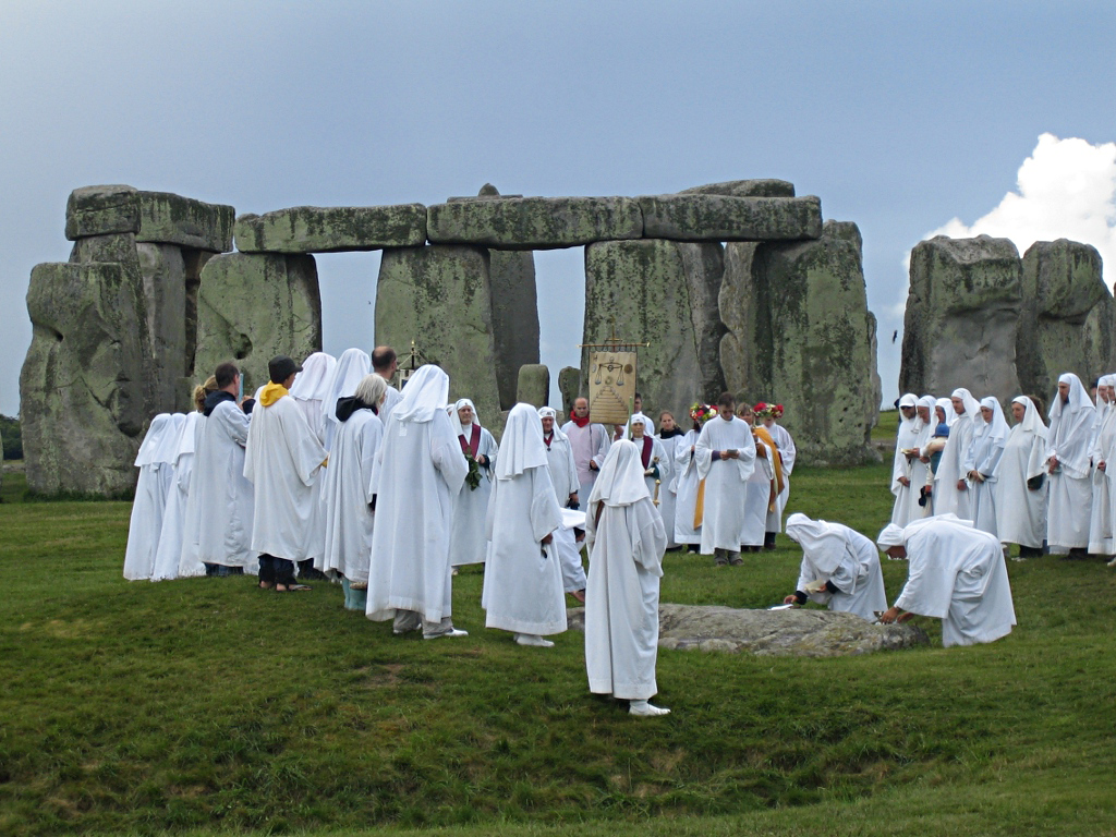 Druids celebrationg rituals at Stonehenge.